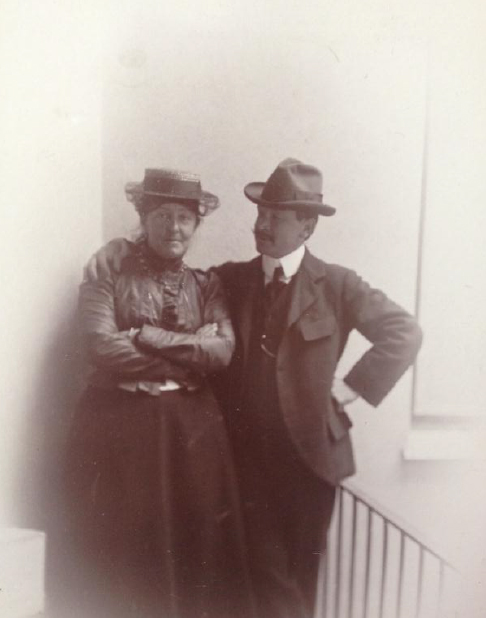 Artists Carolina Benedicks-Bruce (1856-1935) and William Blair Bruce (1859-1906).